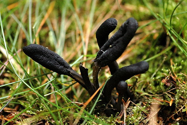 Probably Elaphocordyceps ophioglossoides from Commanster, Belgium. The determination of the species shown in this picture has been verified.